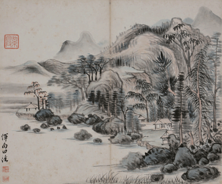 Landscape (2), ink and color on paper 22.9 x 27.2 cm.